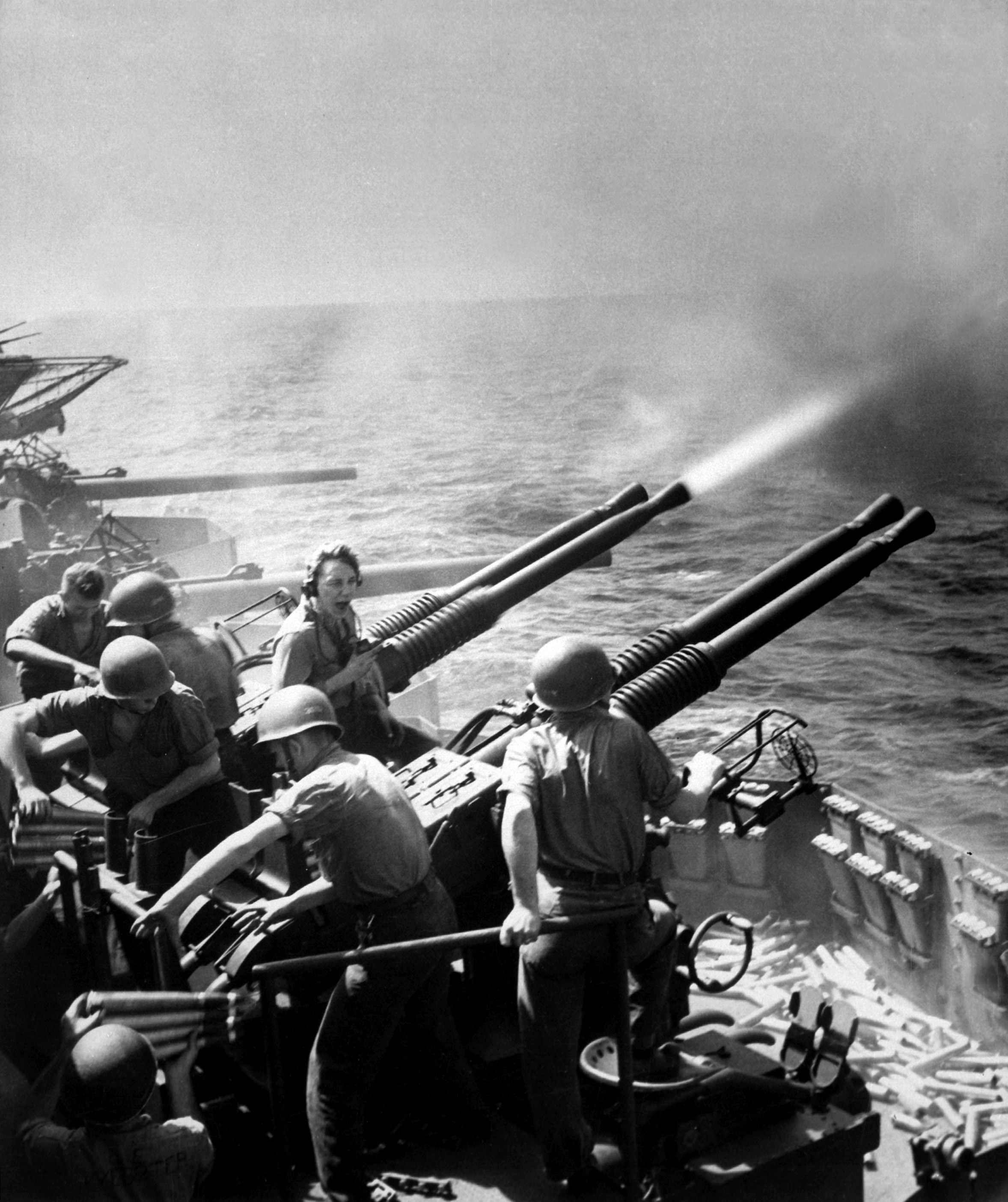 40mm guns firing aboard the U.S. aircraft carrier USS Hornet (CV-12) on 16 February 1945, as the planes of Task Force 58 were raiding Tokyo. Note expended shells and ready-service ammunition at right.